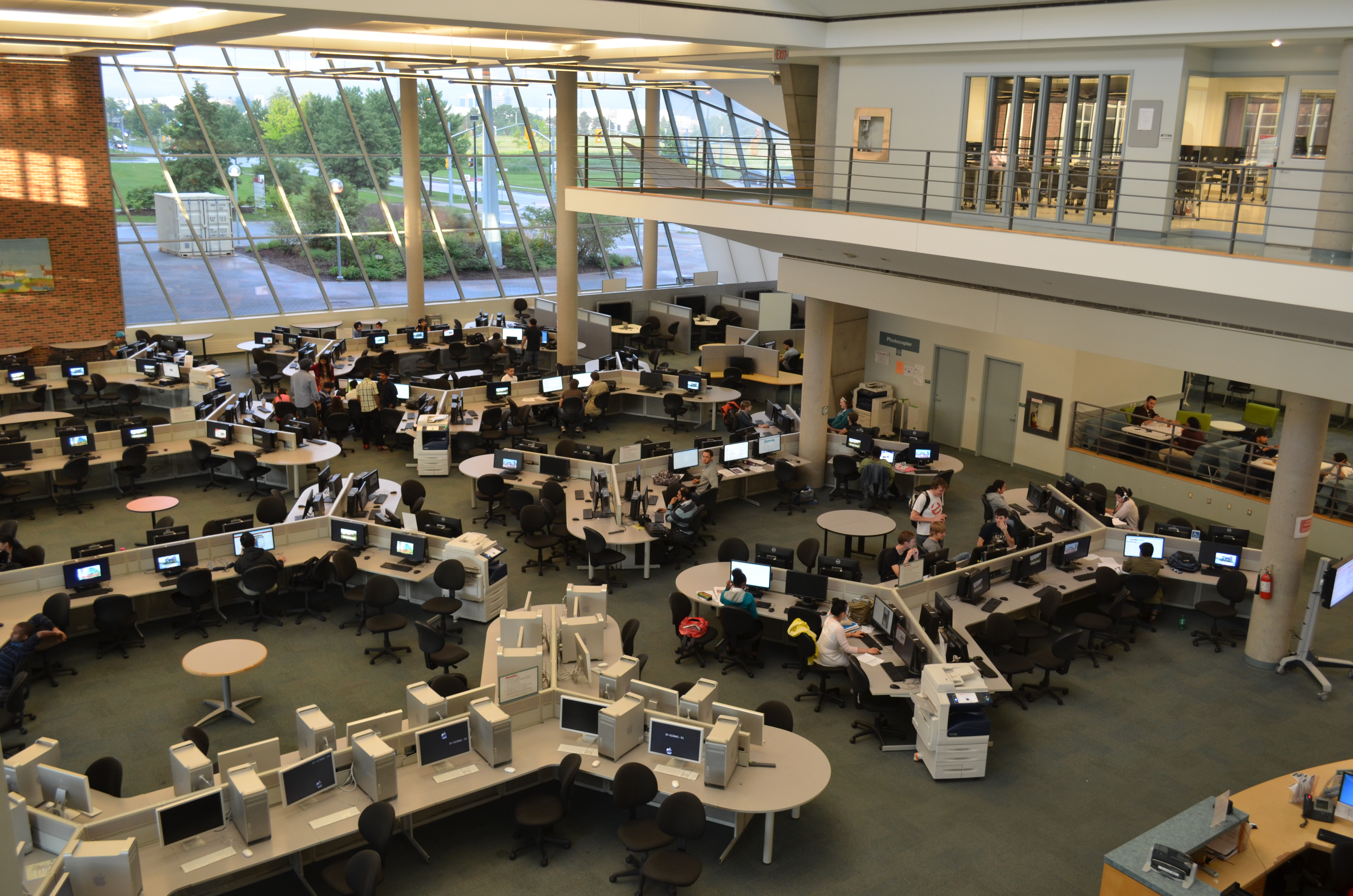 Seneca@York Library & Computer Lab